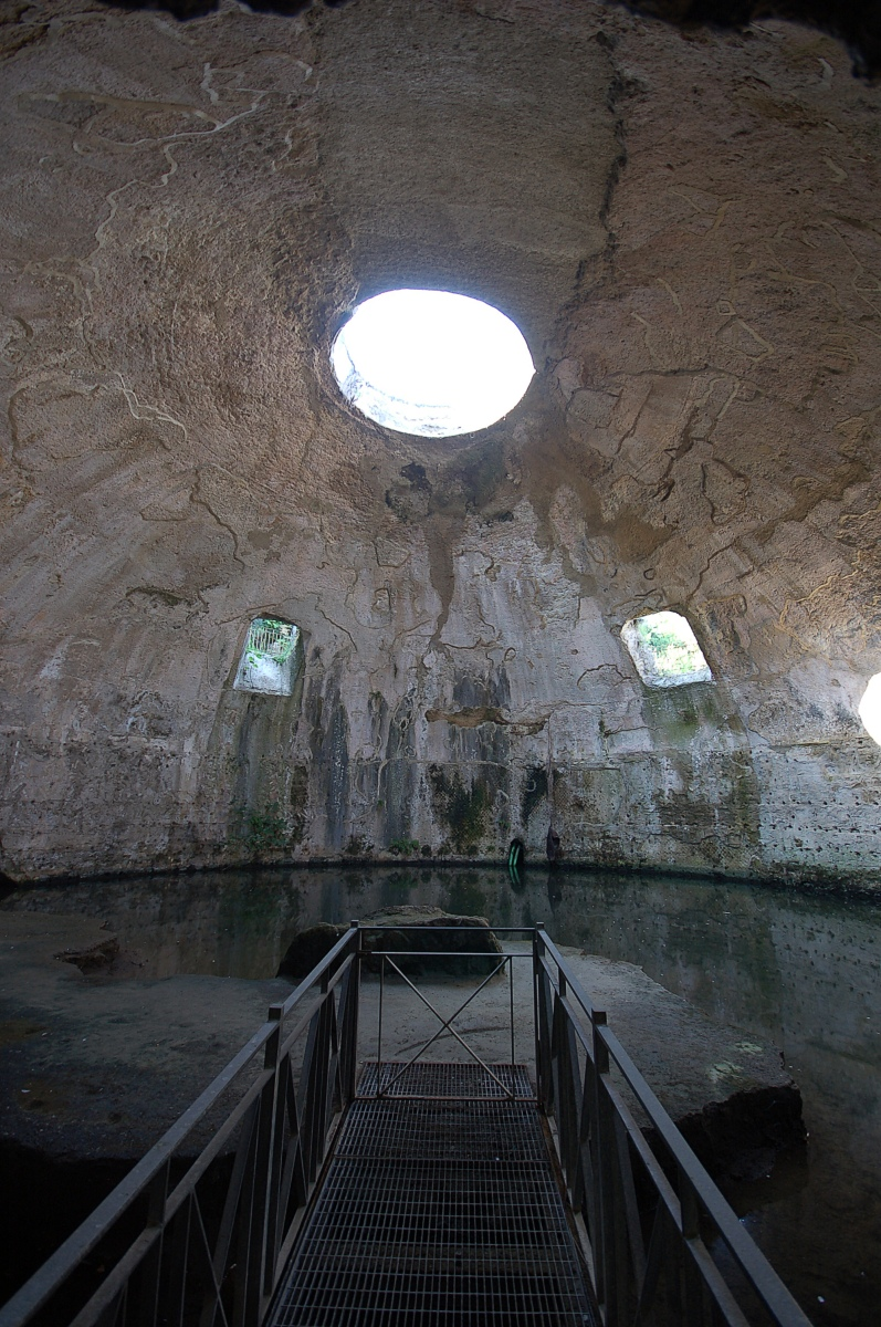 Compex of the roman thermapbath